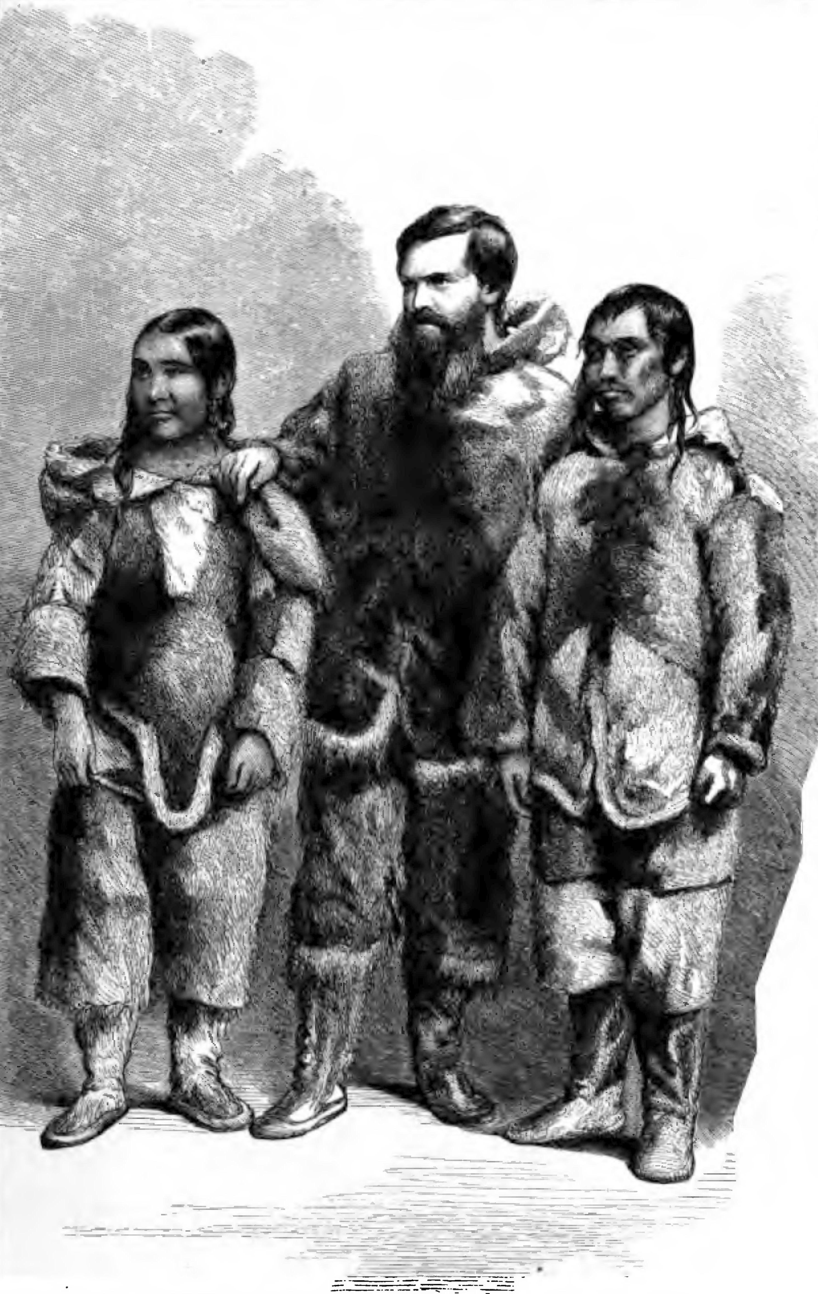 L to R: Tookoolito, Charles Francis Hall, and Ebierbing